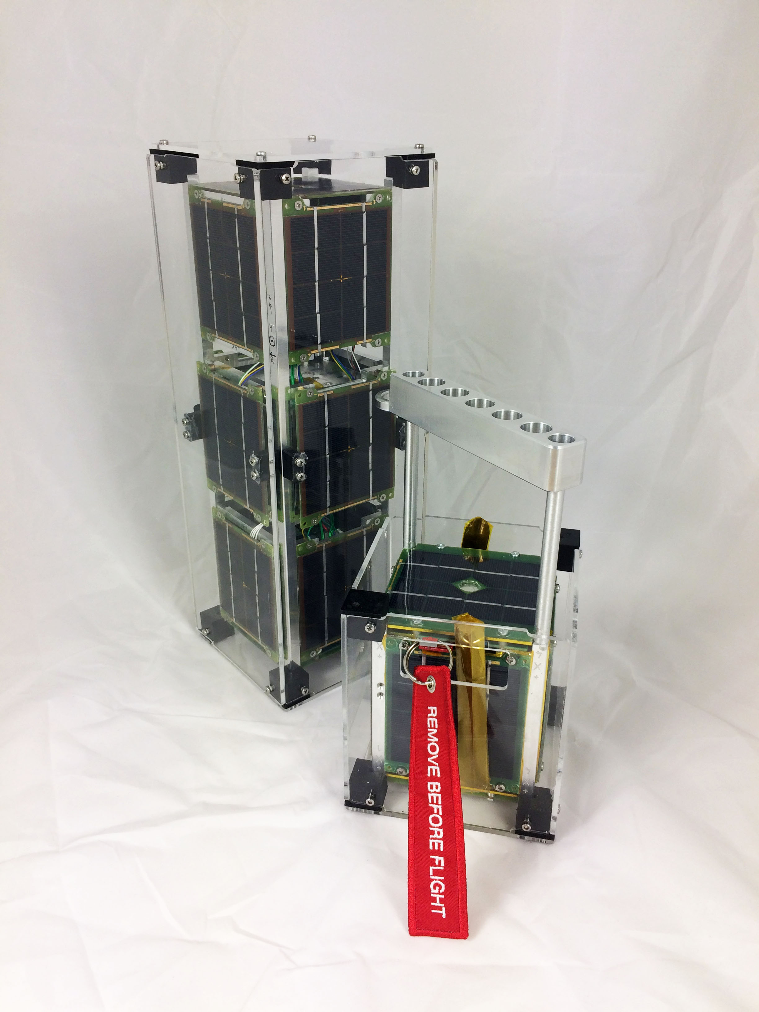 SPUTNIX CubeSats